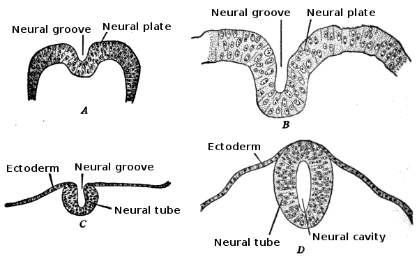 Development of the neural tube in human embryos (Prentiss-Arey). A. An early embryo (Keibel) B. at 2 mm. (Graf Spee) C. at 2 mm. (Mall) D. at 2.7 mm (Kollmann). This is a scan of Figure 6 of the book "The anatomy of the nervous system" by Stephen Walter Ranson, with the labels redrawn.